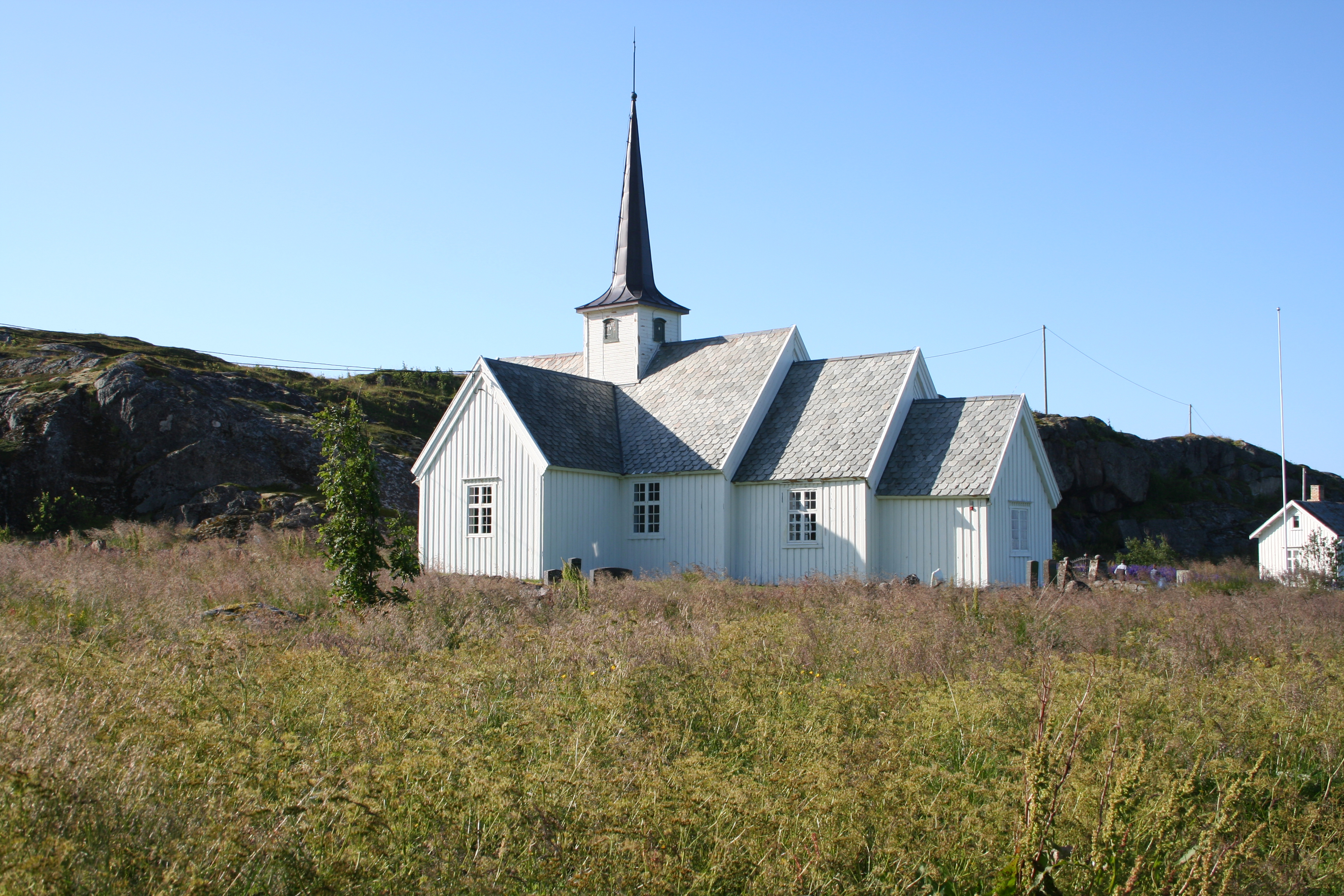 Langnes church in Øksnes, Norway